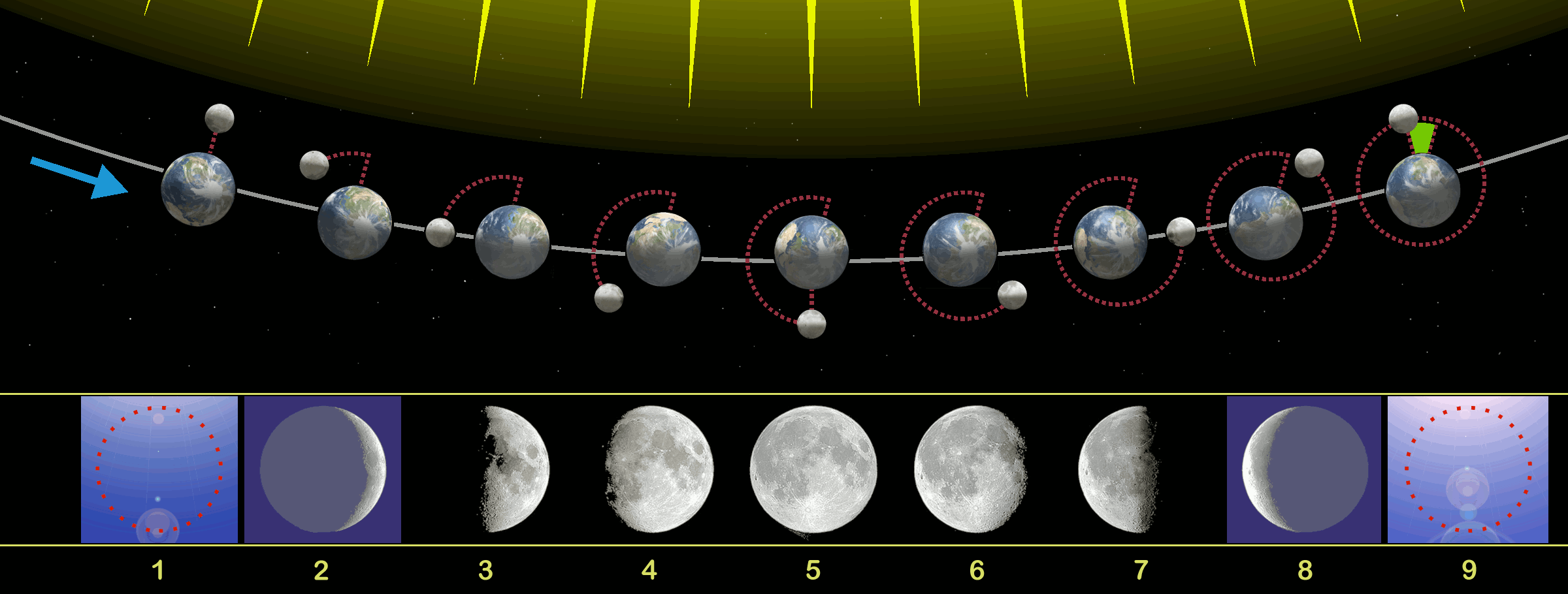 The relation of the phases of the Moon with its revolution around Earth. The sizes of Earth and Moon, and their distance you see here are far from real. On this image the followings are also depicted: the synchronous rotation of the Moon, the motion of the Earth around the common center of mass, the difference between the sidereal and synodical month (green mark), the Earth's axial tilt. (Note: at the moment of New Moon you never see anything but the bright Sun.)